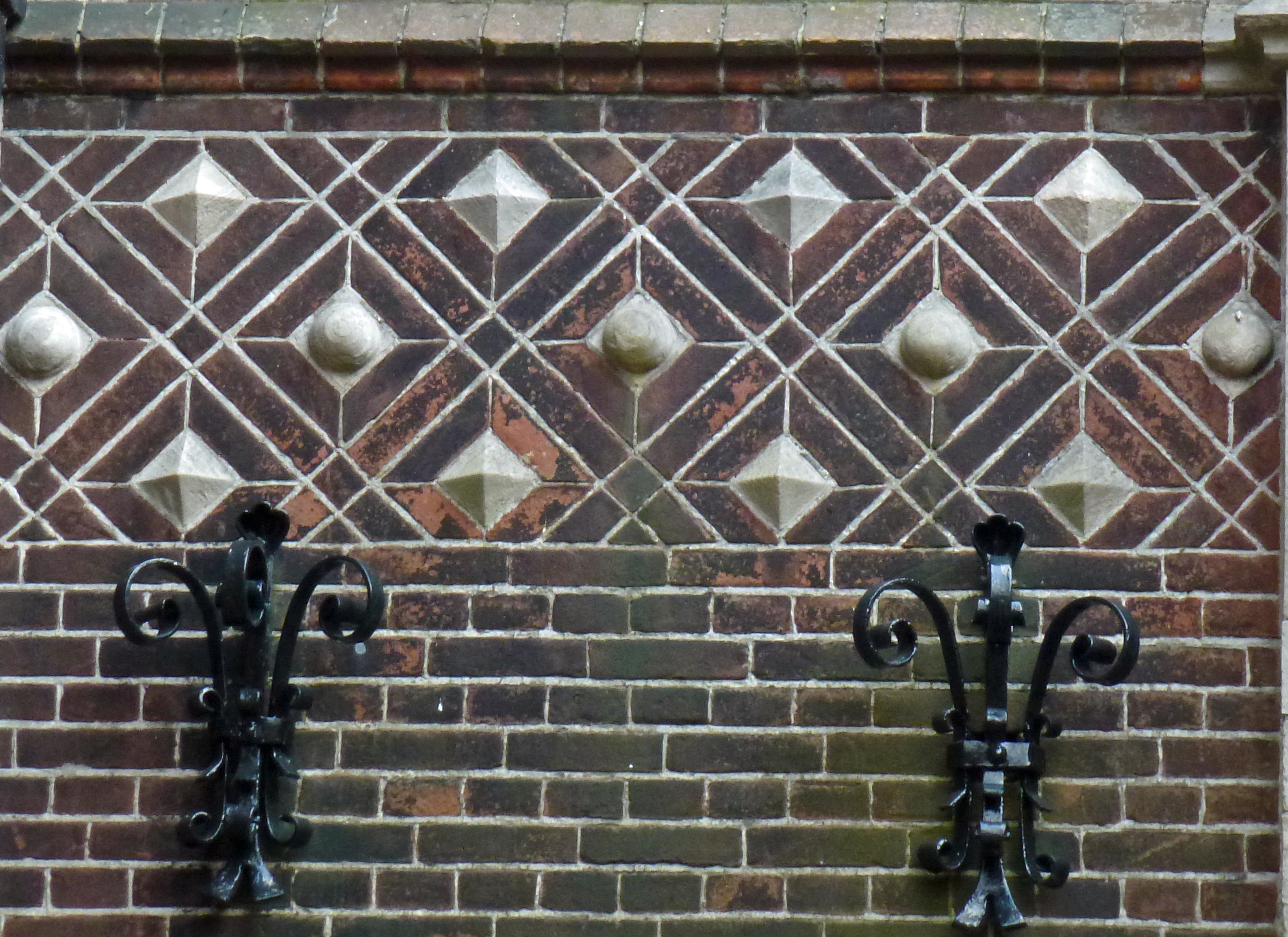 Rich ornamented gable. Year: 1889